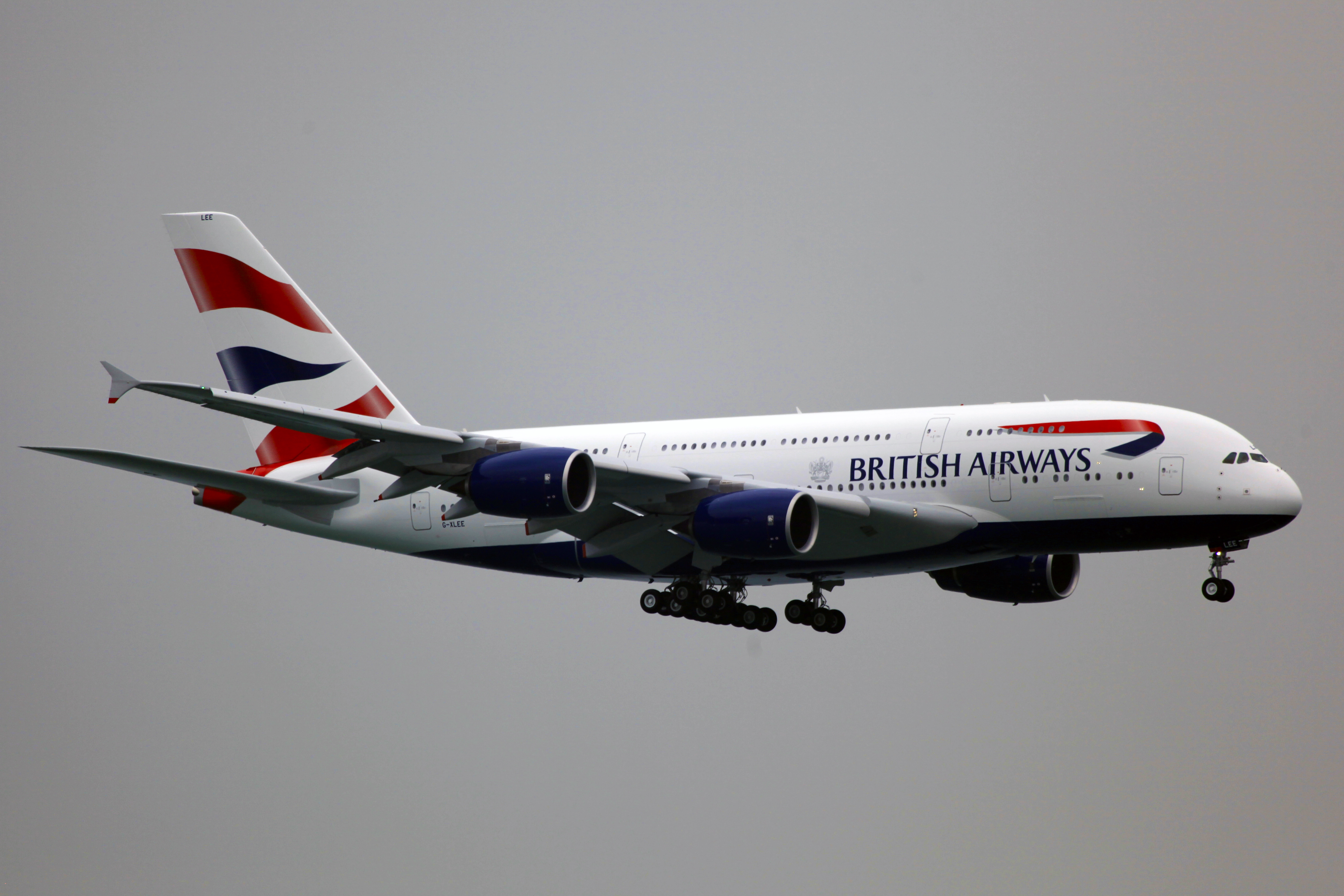 G-XLEE | British Airways | Airbus A380-841 | Hong Kong Chek Lap Kok International Airport [HKG]